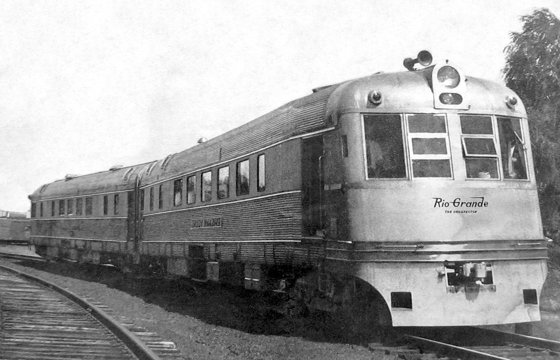 Photo of the Denver and Rio Grande Railroad's streamlined train, The Prospector, from the cover of The Buddgette. The magazine/newsletter was produced by the employees of the Budd Company, builders of the train.